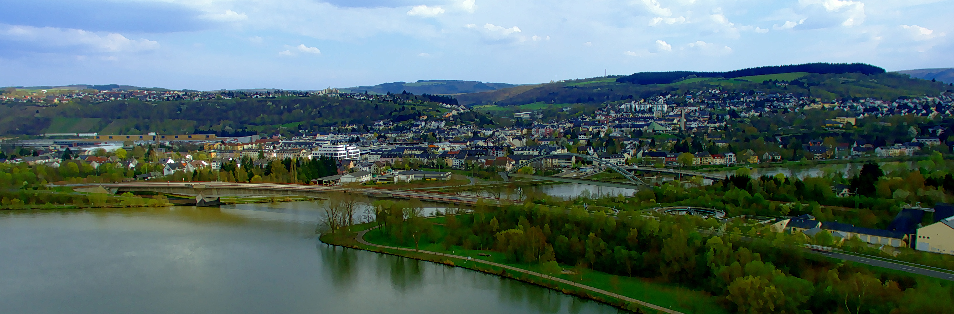 Mouth of the Saar into the Moselle at Konz